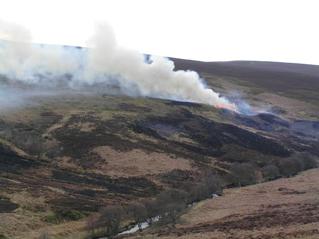 Baysdale - controlled moor burning Heather and dead bracken being burnt as land management on Little Hograh moor. Left unburnt too long, the area becomes endangered by serious fires in the Summer which burn very hot and will get into the under-lying peat. Also regular fires (usually about every 10 years) helps minimise scrub encroachment onto the heather moorland. The patchwork of areas at different stages of regrowth is beneficial to most wildlife as well as sheep and grouse.